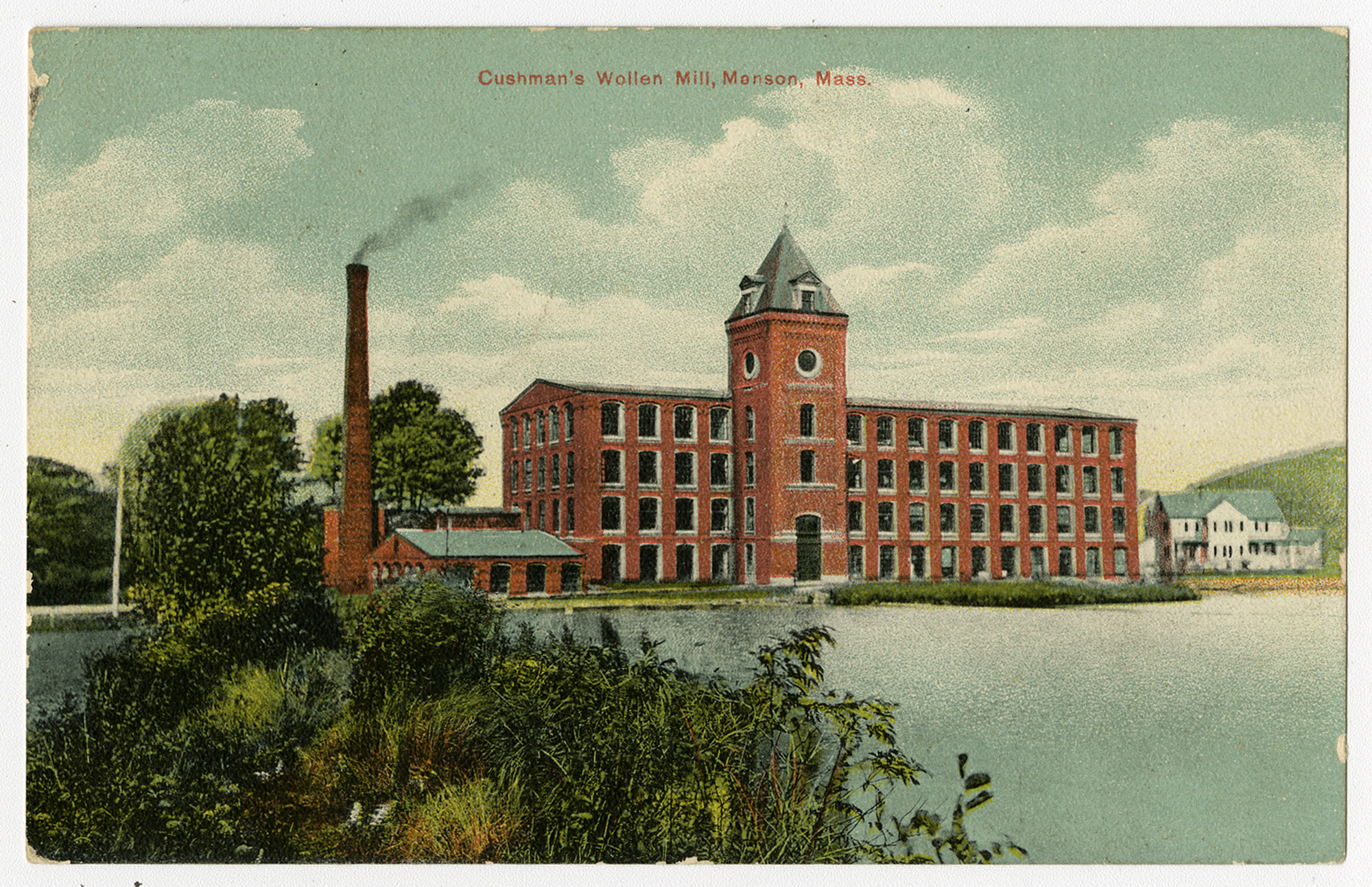 Cushman's Wollen [Woolen] Mill, Monson, Mass. Color image of 4-story brick building with tower and stack. Waterway in foreground. Published by The Springfield News Company, Springfield, Mass. Printed by NewvoKrome - Germany. Postmarked 1910. 14 x 9 cm. Image provided courtesy of the American Textile History Museum in Lowell, Massachusetts.